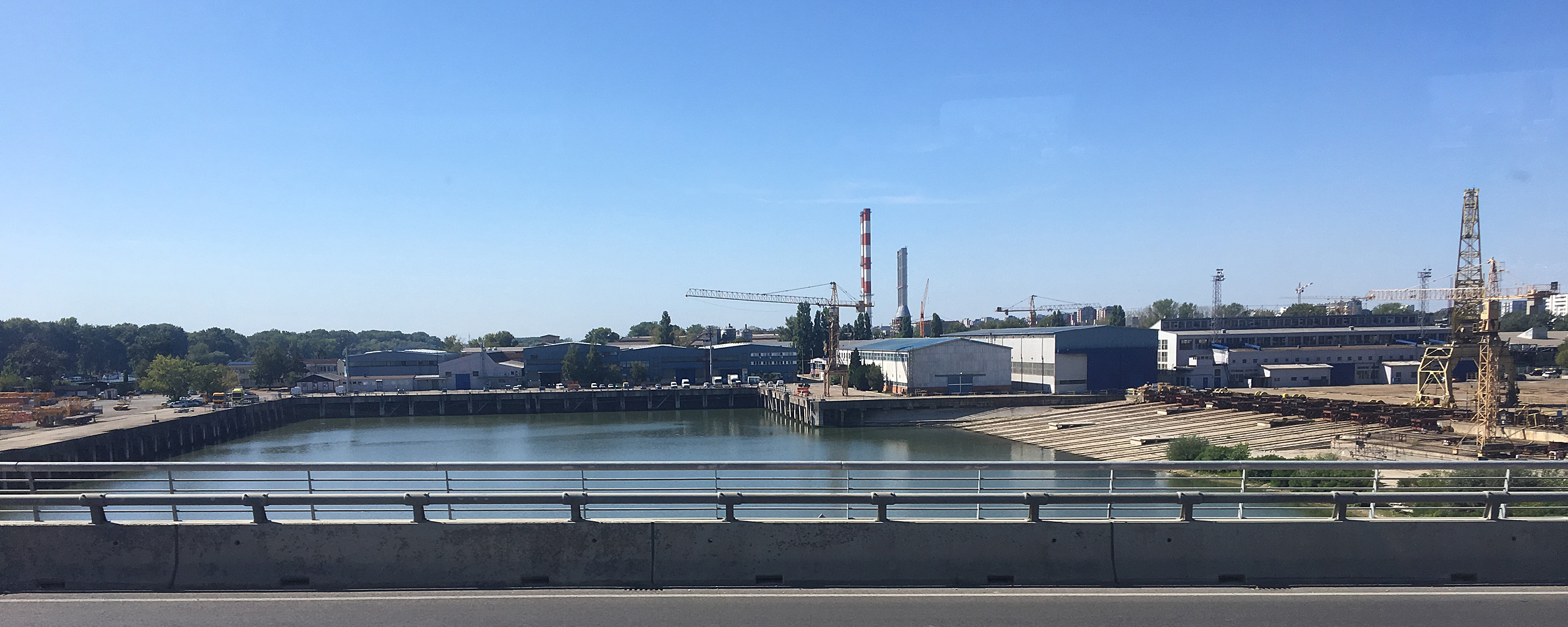 Shipyard Belgrade